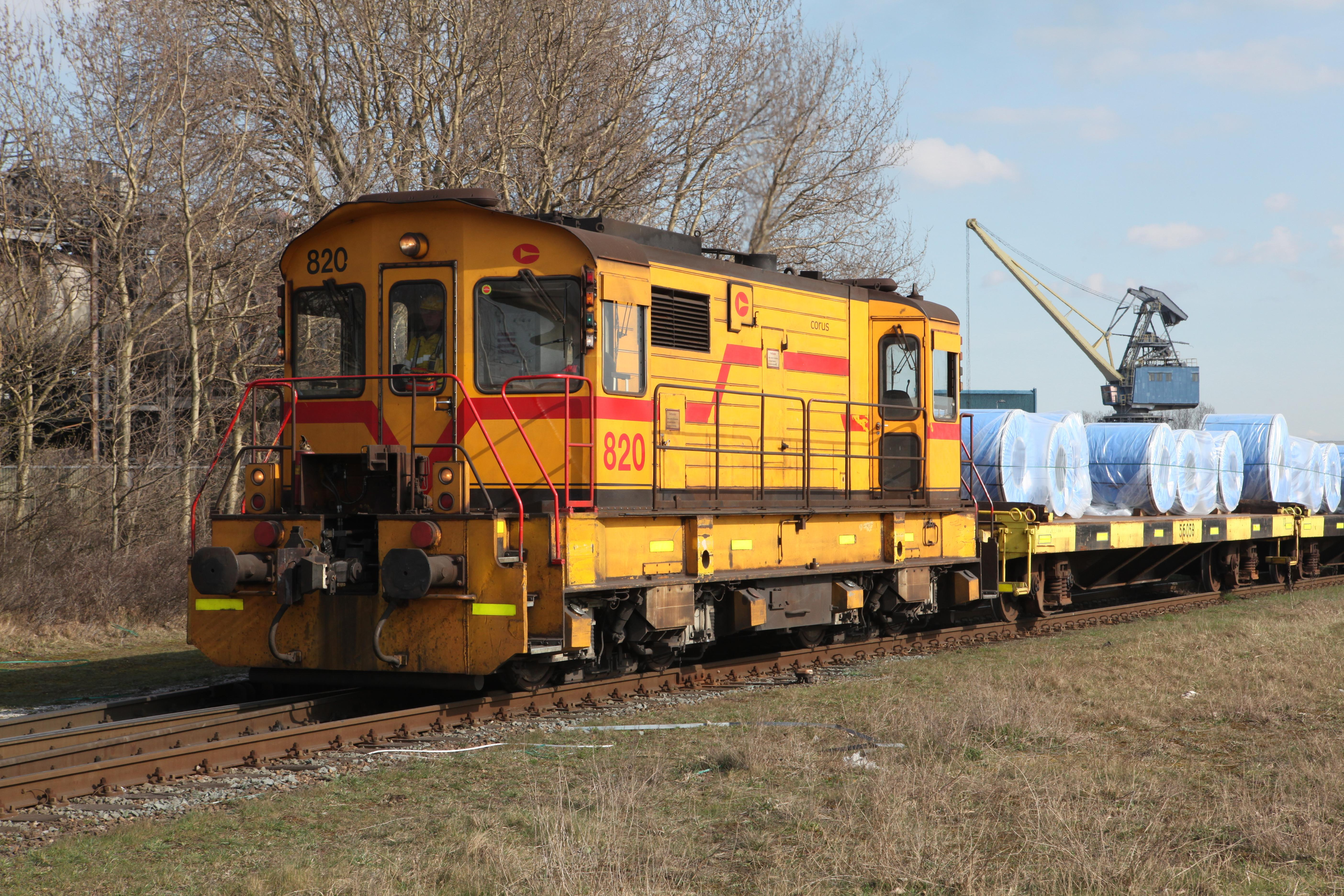 Corus trein 820 Tata Steel train